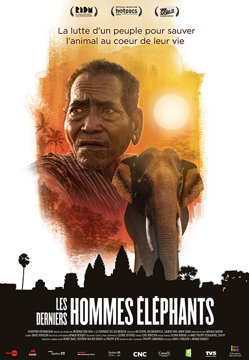 Poster of the movie Last of the Elephant Men (Q21008312)